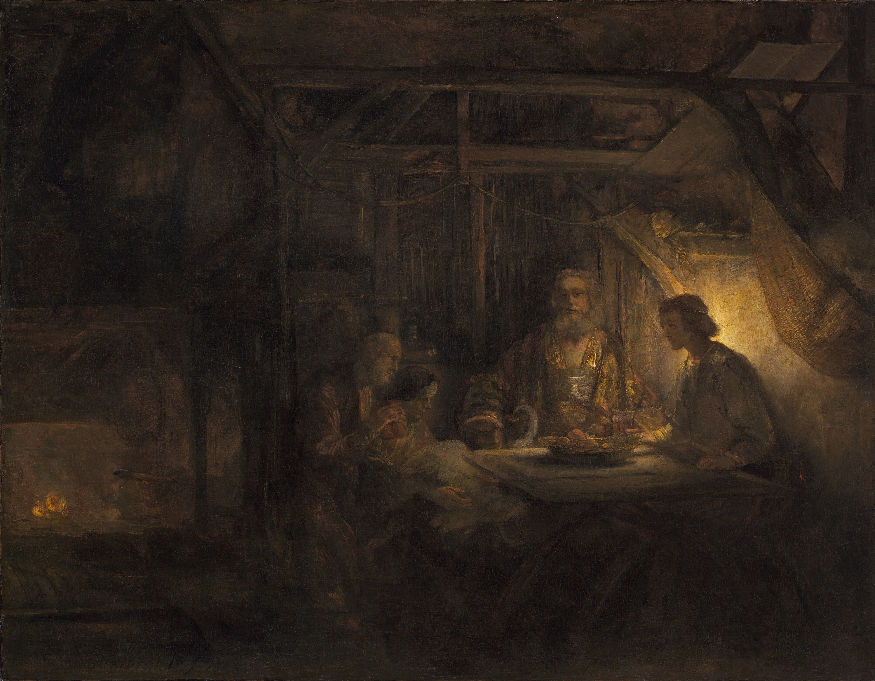 Jupiter and Mercurius in the house of Philemon and Baucis